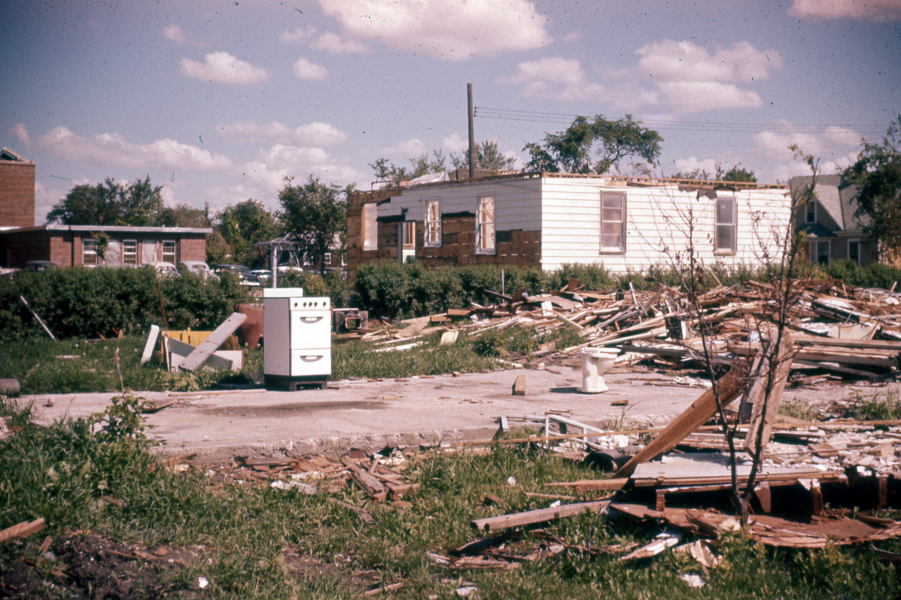 A photograph of some of the damage caused by the 1957 Fargo tornado outbreak.